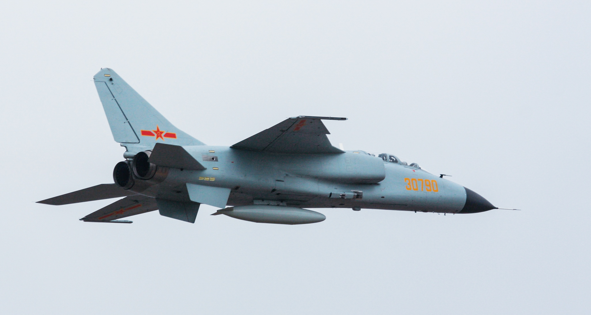 A Xian JH-7A fighter at Zhuhai Airshow 2008